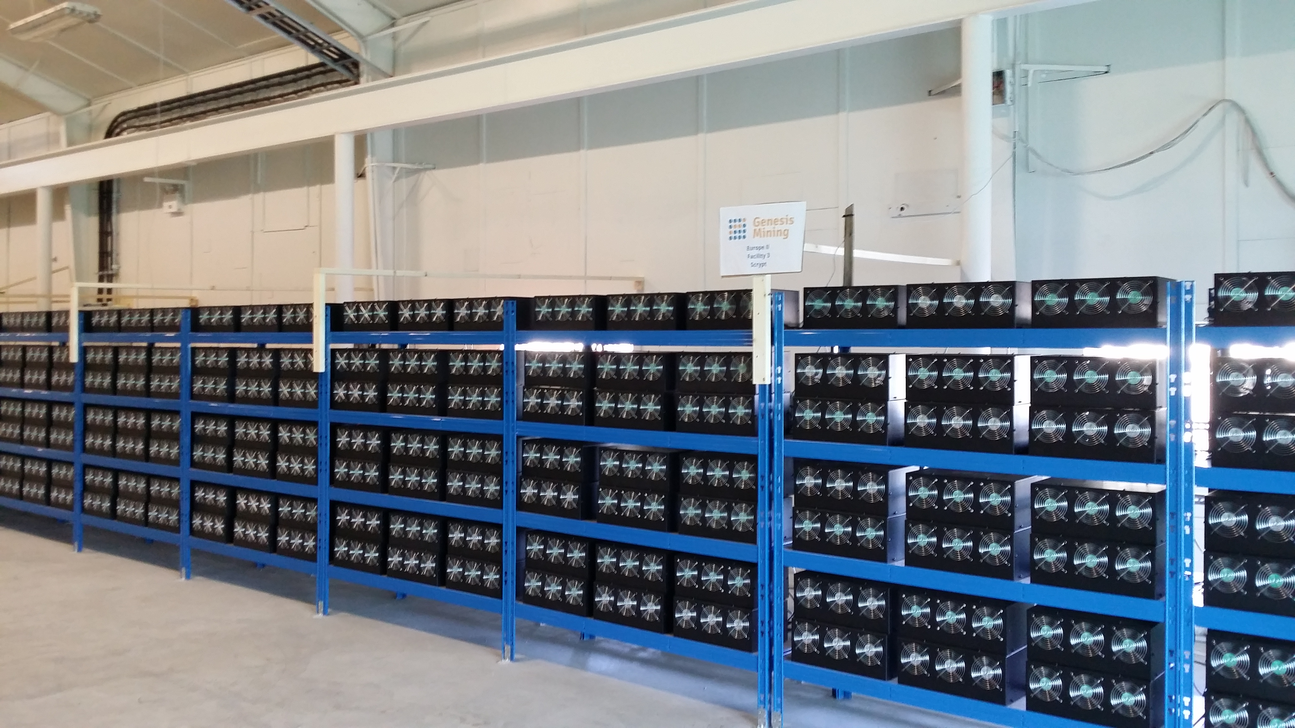 A mining farm of Genesis Mining located in Iceland. The picture shows mainly Zeus scrypt miners.